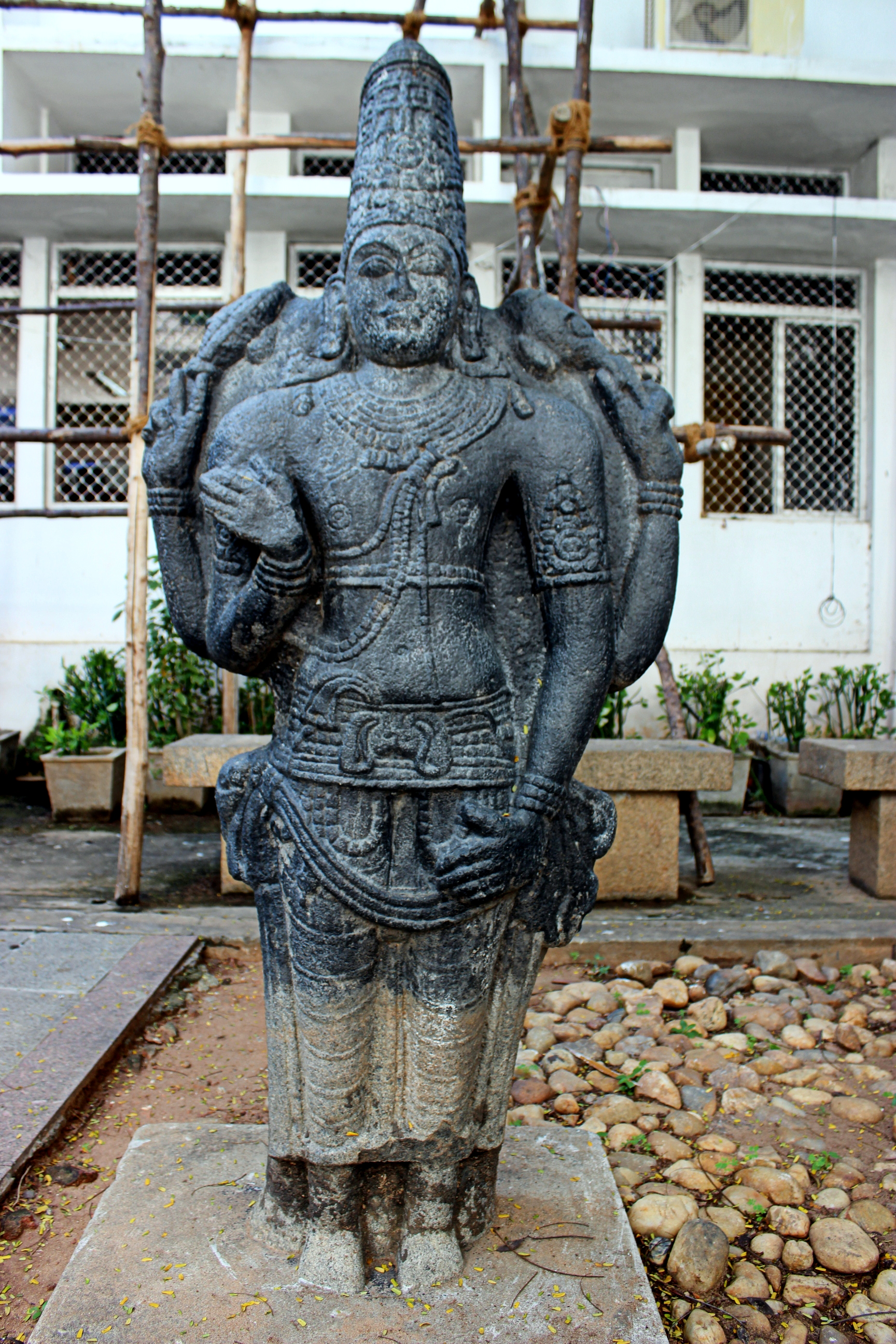 pondymuseum4 clicked & contributed by Mr.Narayana Sankar